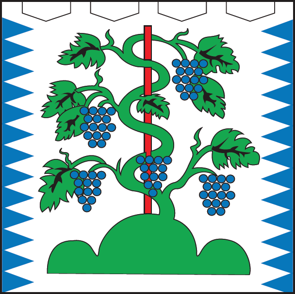 Flag of Mohyliv-Podilskyi